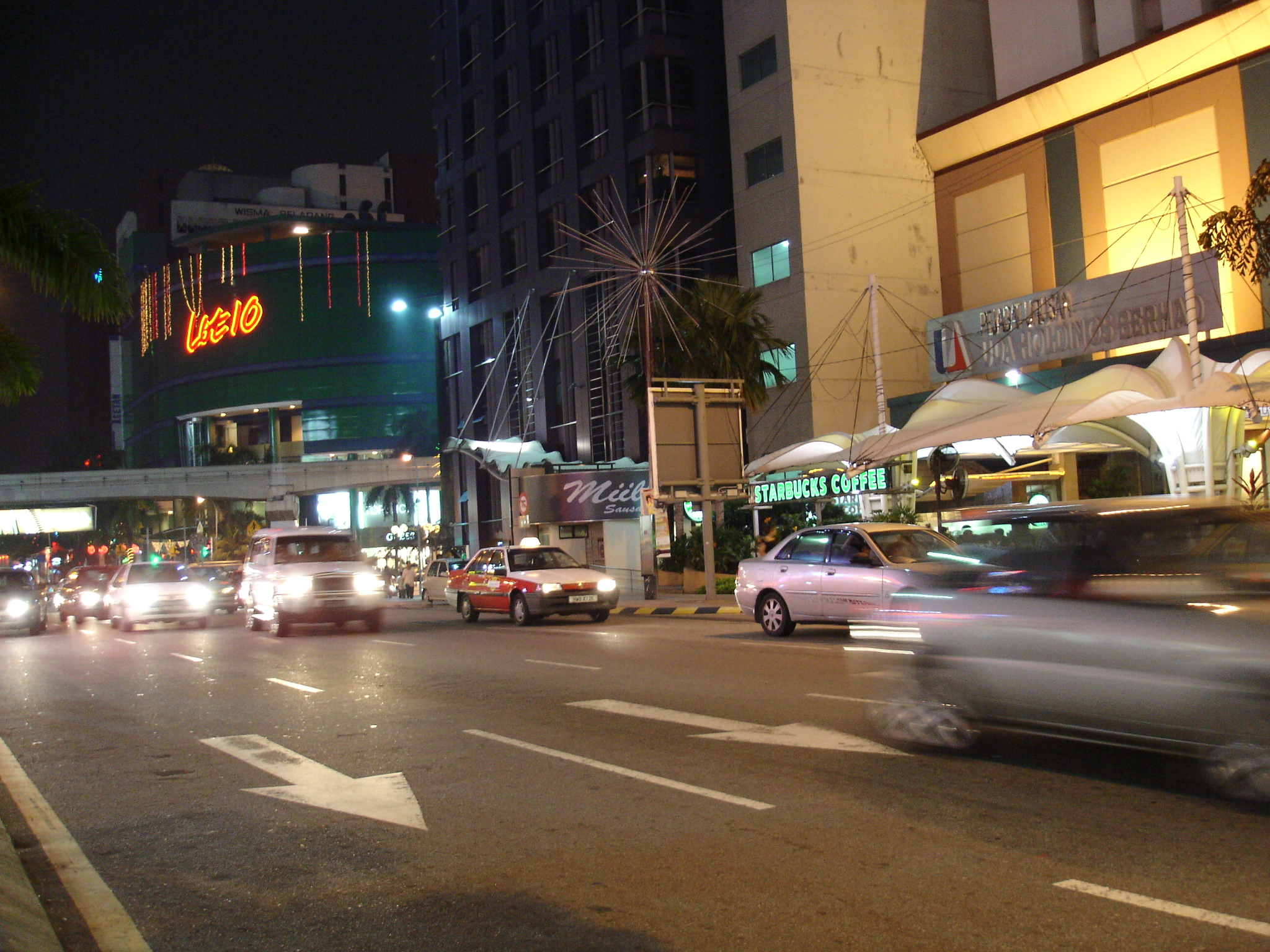 Jalan Bukit Bintang at night.